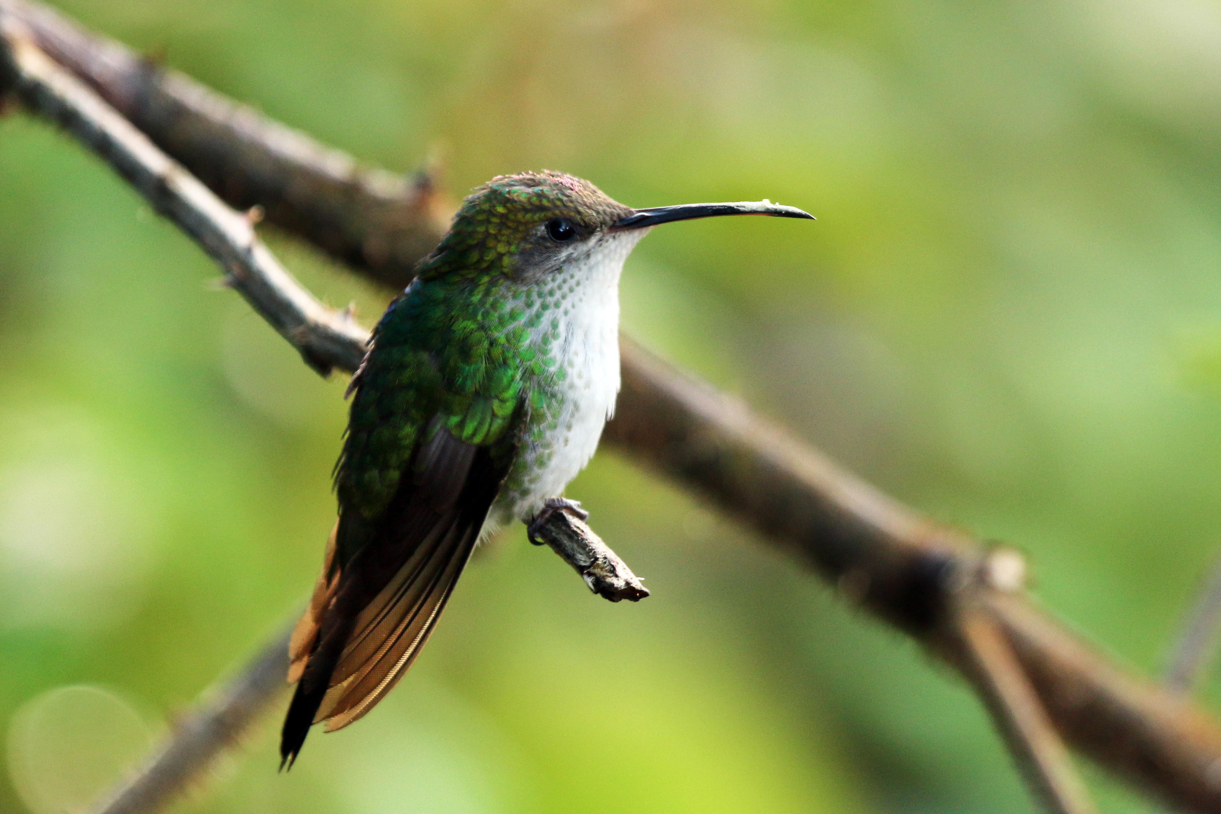 Red-billed streamertail (Trochilus polytmus), female, Strawberry Hill, Jamaica